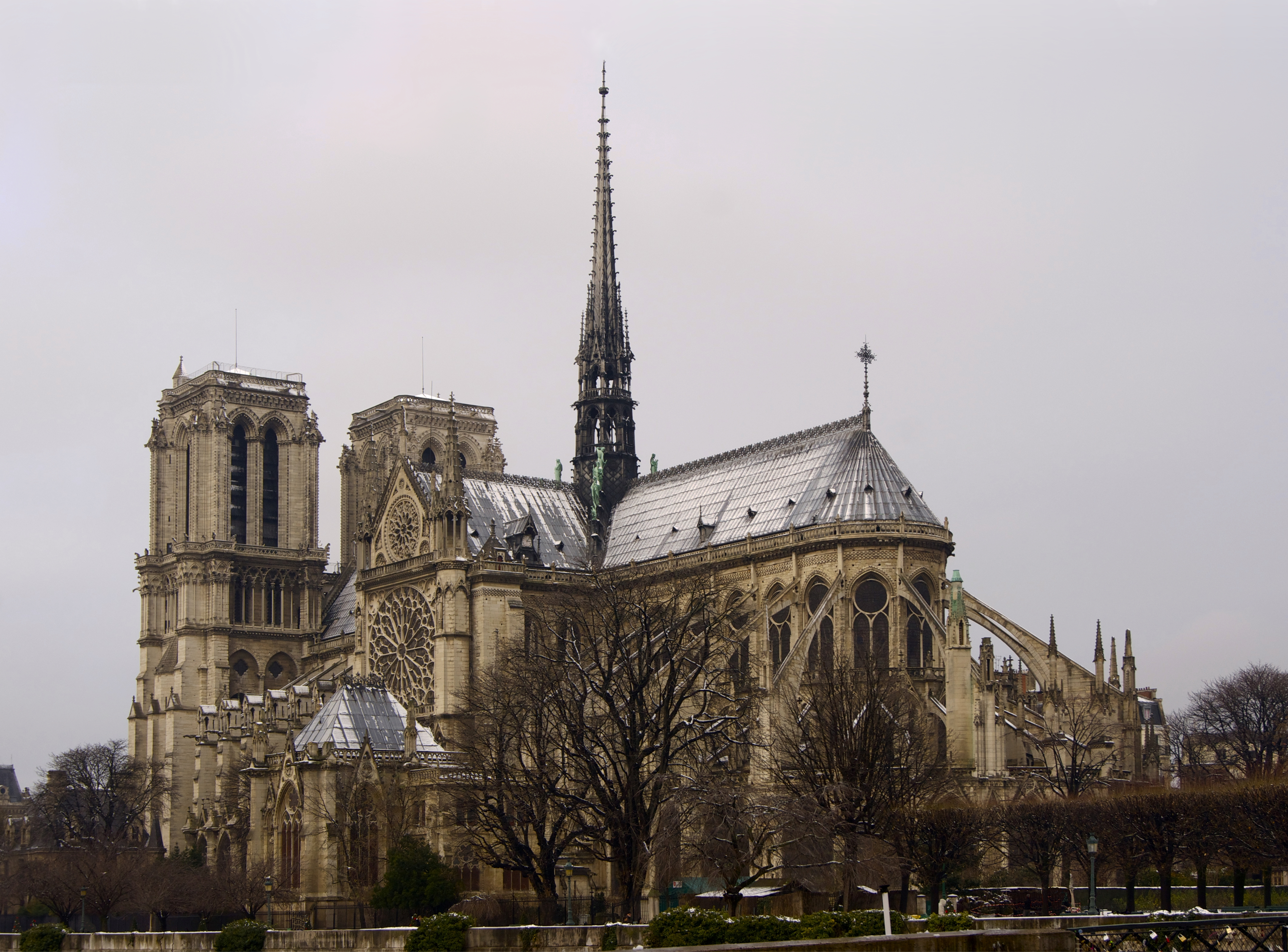 Notre-Dame de Paris, view from Pont de l'Archevêché, snowy last day of autumn 2010